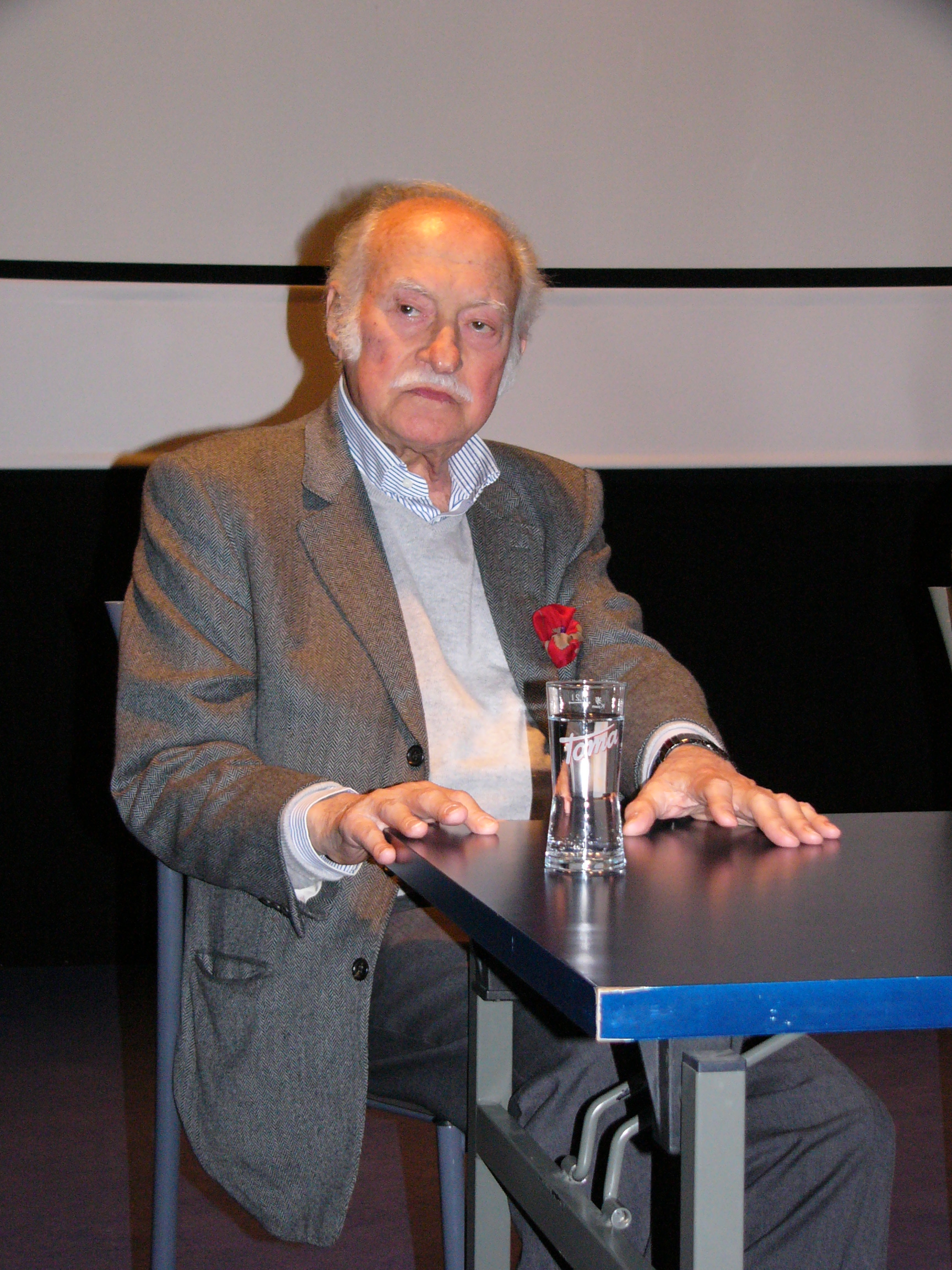 photo of Albert Barillé